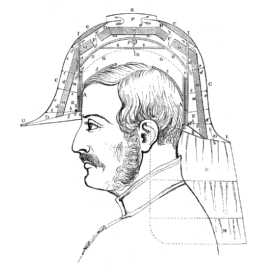 Army helmet design, side cross-sectional view